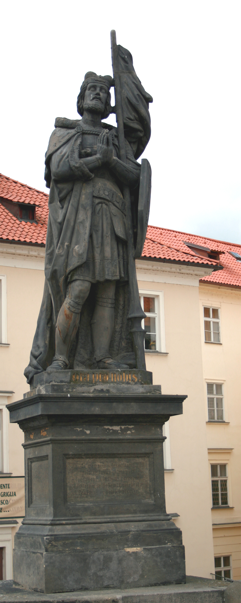 Prague, Charles Bridge, St Wenceslas by J. K. Bohm.